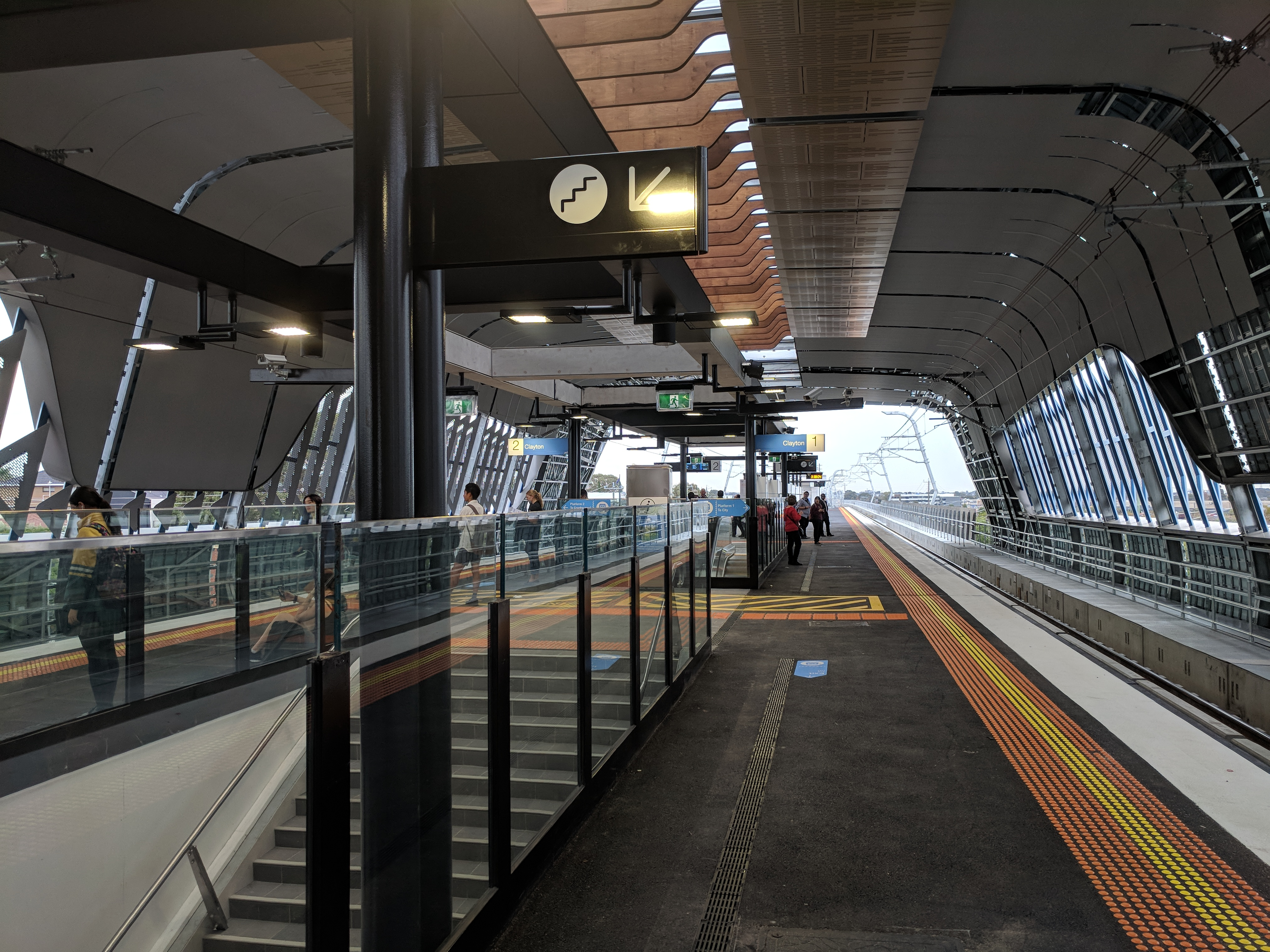 New Clayton railway station April 2018